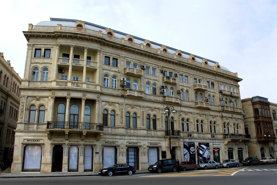 Intersection of Aziz Aliyev Street & Neftchilar Avenue